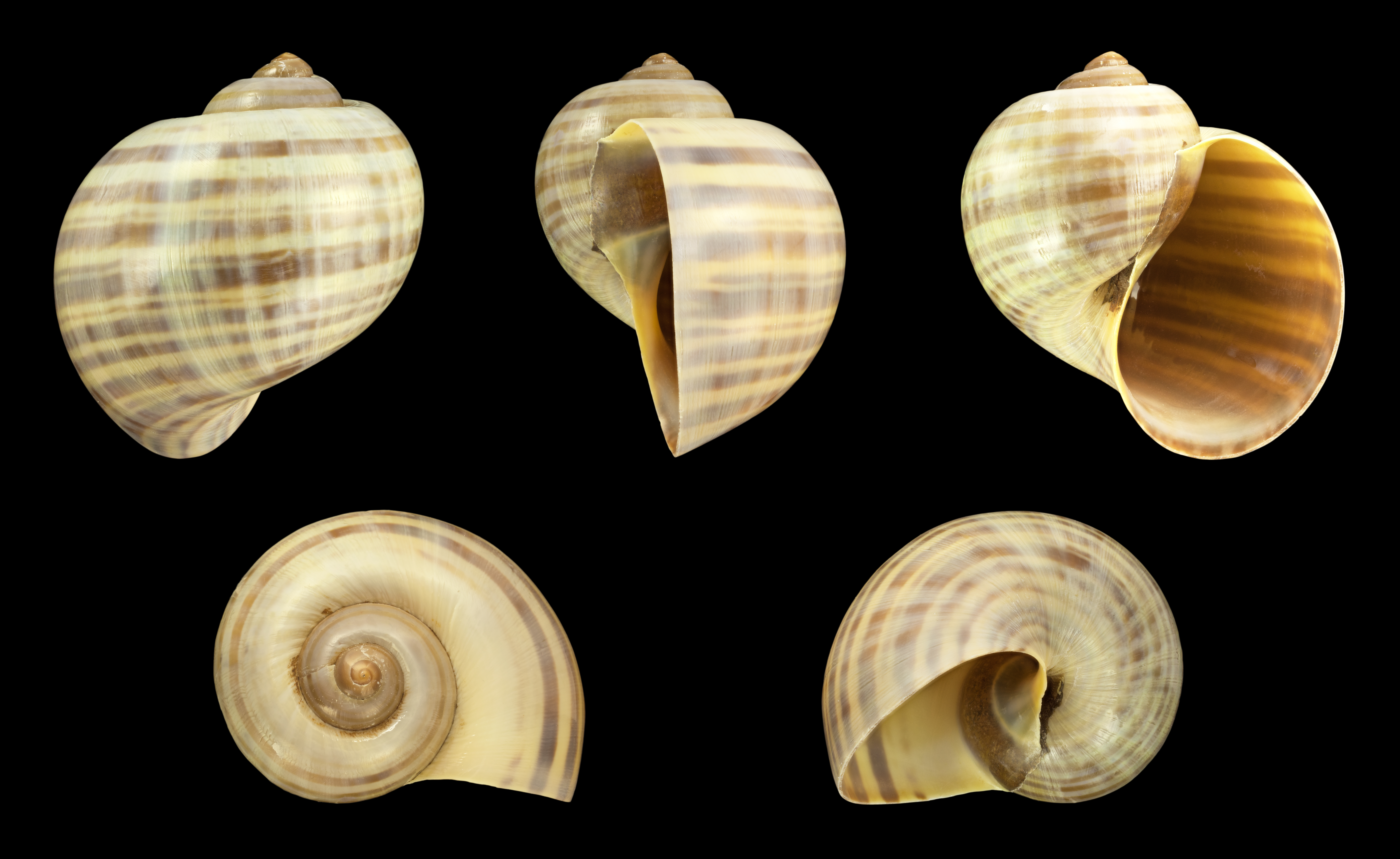 Pomacea paludosa (Say, 1829), Florida applesnail; Height 6.8 cm; Originating from Florida, USA. Shell of own collection, therefore not geocoded.